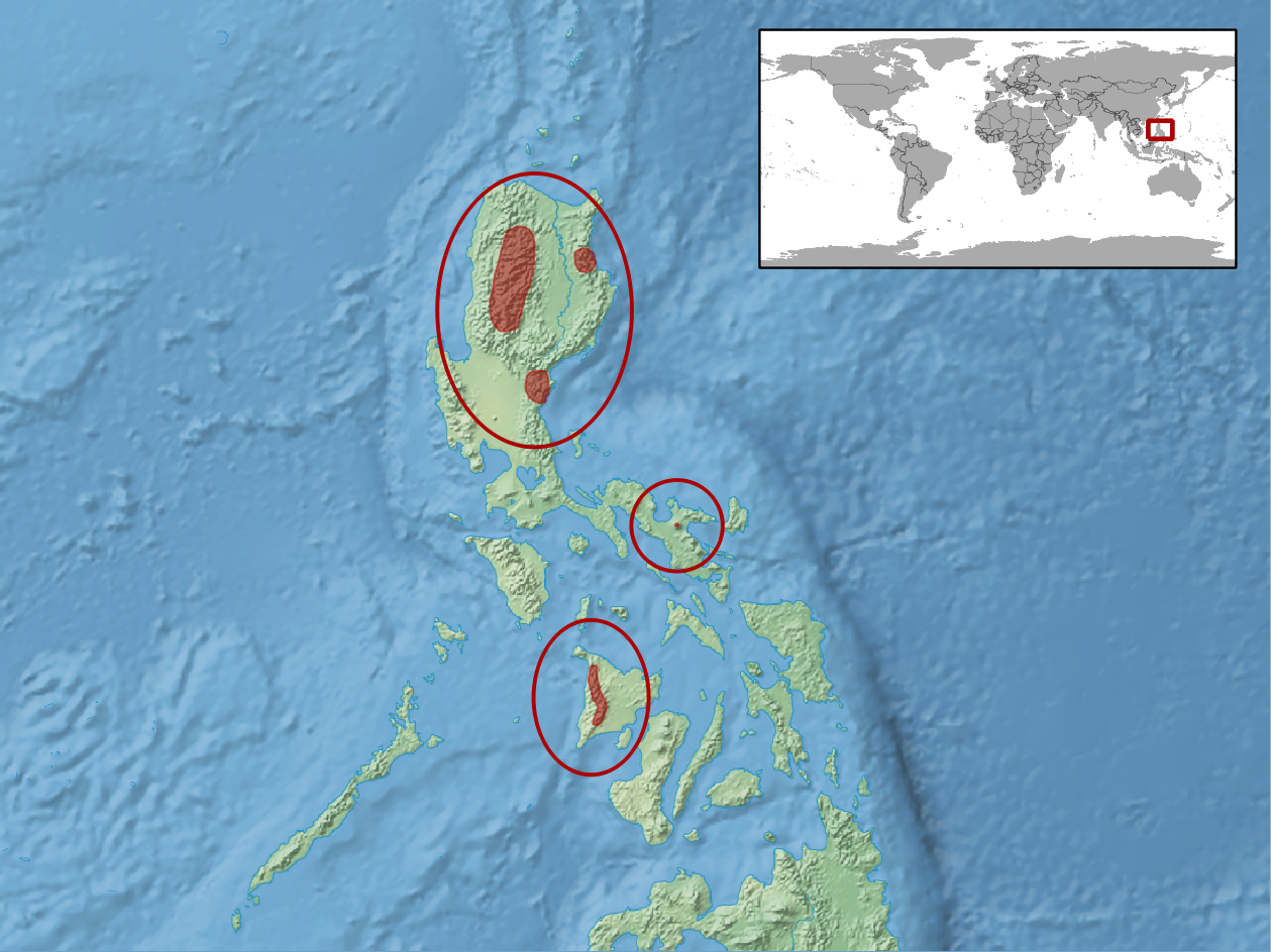 geographic distribution of Calamaria bitorques (Native: Philippines)